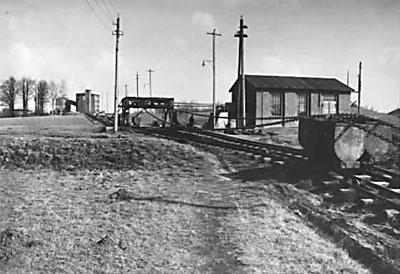 Chain-driven rail transport at the lignite mine near Berzdorf, Germany, 1922